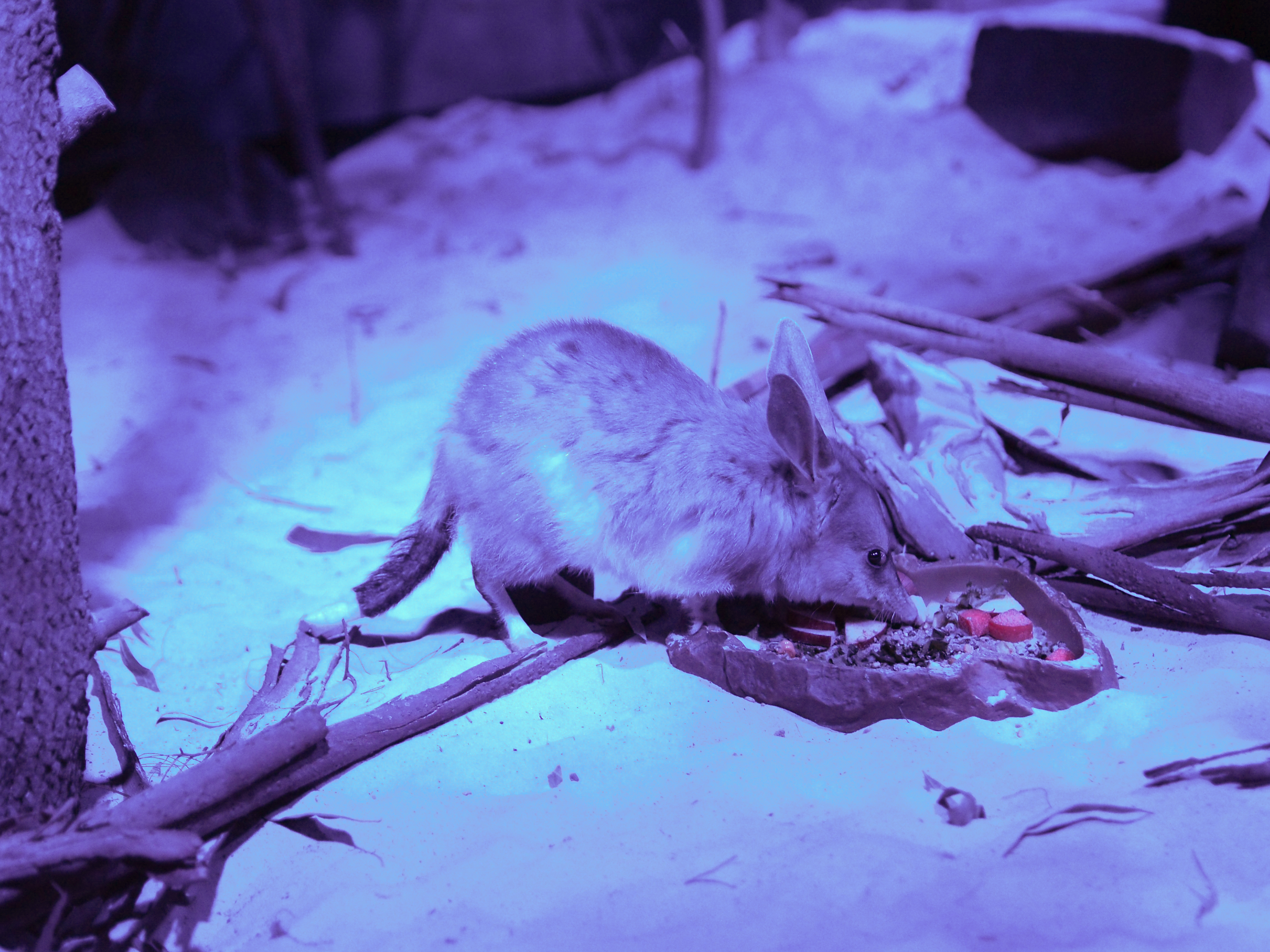 Greater bilby